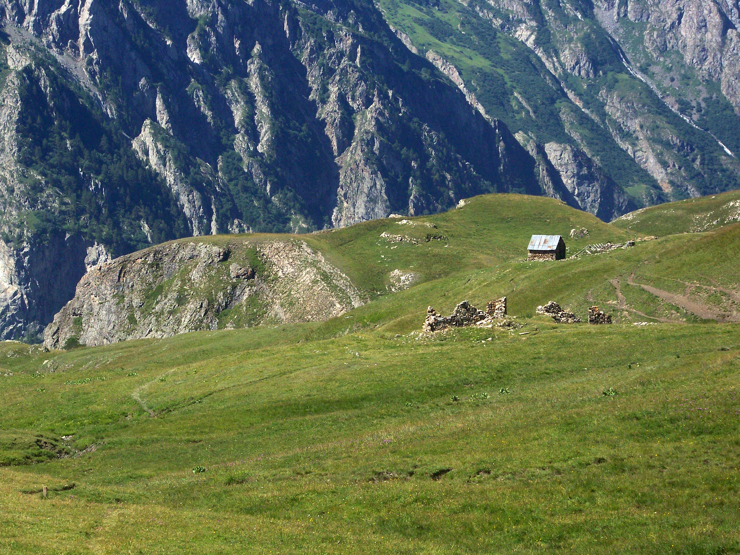 Sheepfold and the Souchet ruins on the Emparis plateau, la Grave, France